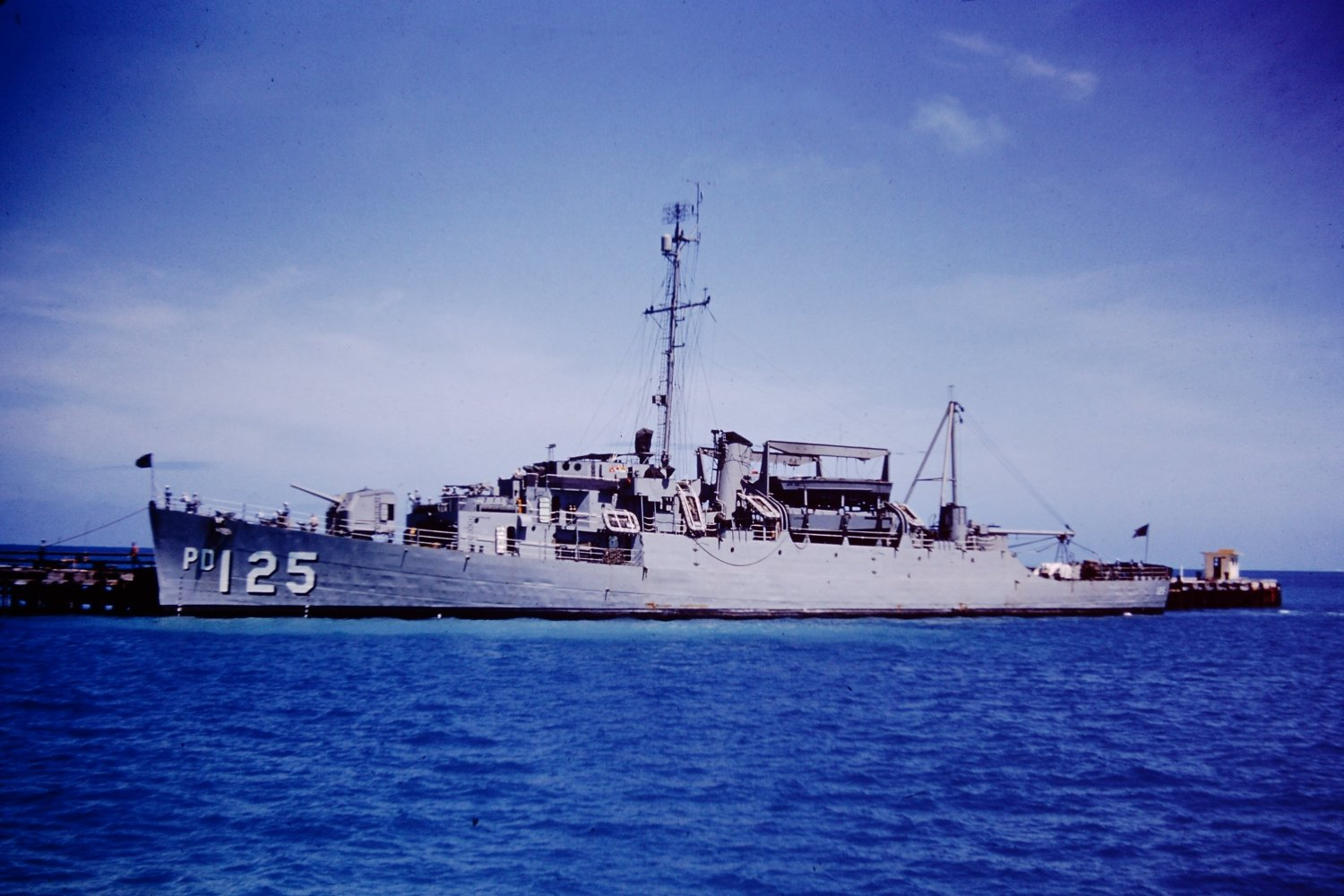 The U.S. Navy high-speed transport USS Wantuck (APD-125) in port, in 1952-1953.